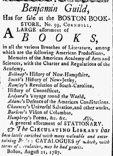 newspaper item related to Benjamin Guild and the Boston Book-Store, no.59 Cornhill, Boston, Mass.